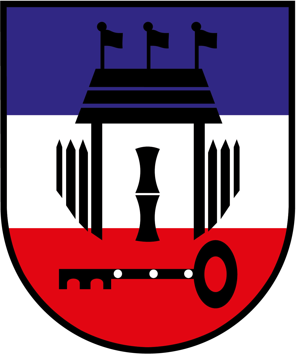 Internal coat of arms of the Bundeswehr (Armed Forces of the Federal Republic of Germany). → Remarks on naming and categorization scheme